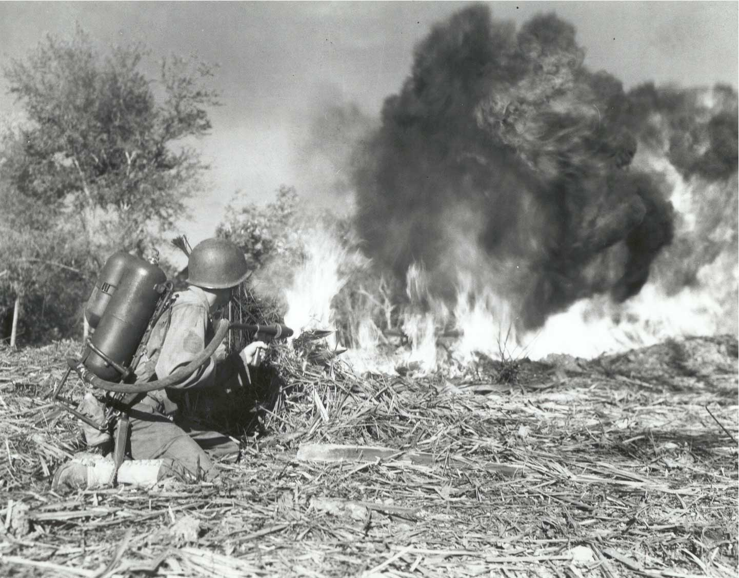 From source information from : S/Sgt Bill Seklscki fires a flame thrower at a Japanese position near Manacag, Luzon, P.I. Jan 25 1945. Photo: National Archives. Webmaster note: 33rd did not land on Luzon until Feb 1945. Date of picture could be a mistake.